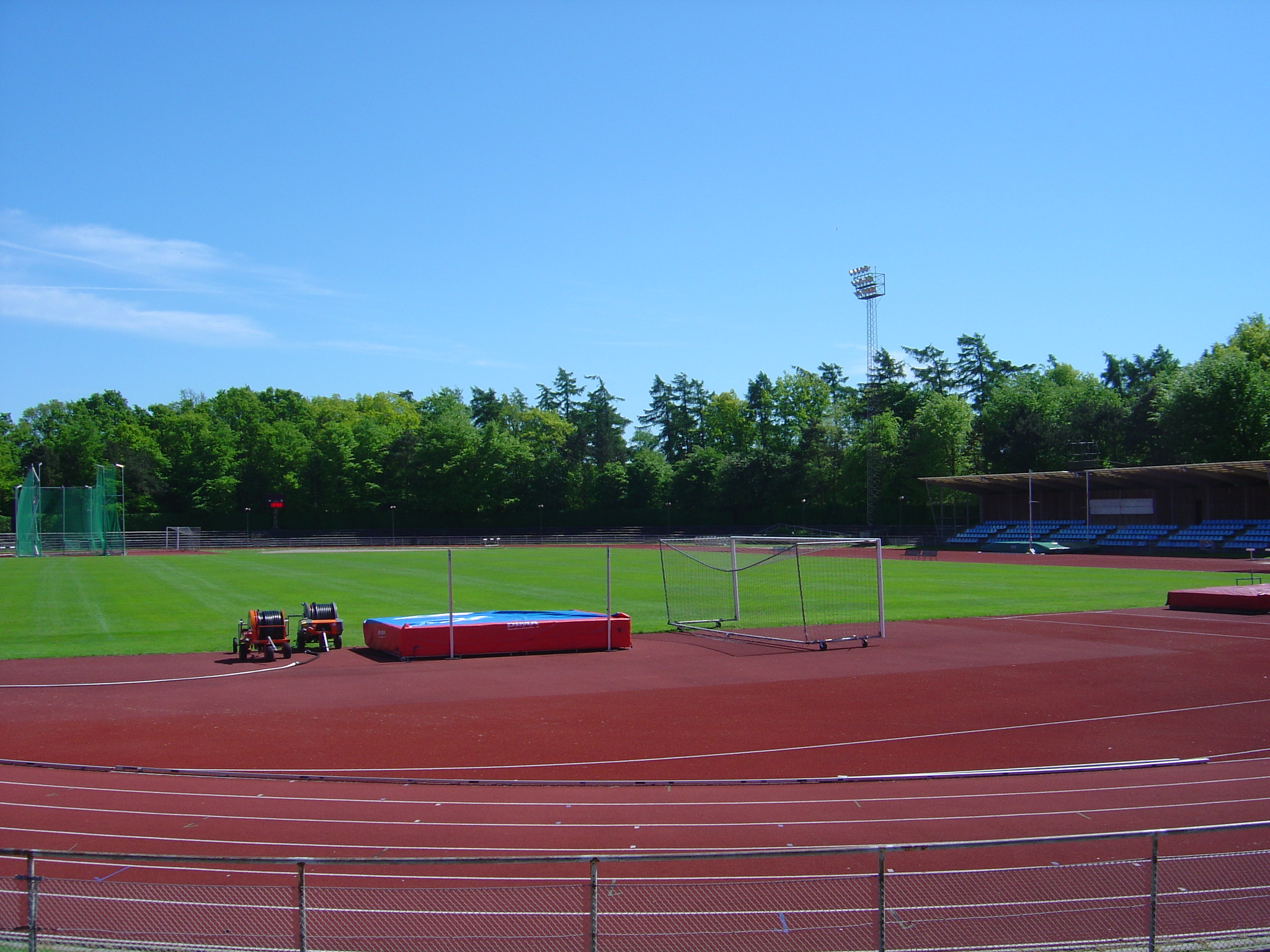 Tårnby Stadion (Opvisningsbanen) on Amager, Copenhagen. Seen from north section of the stadium, at Gemmas Allé, Kastrup.